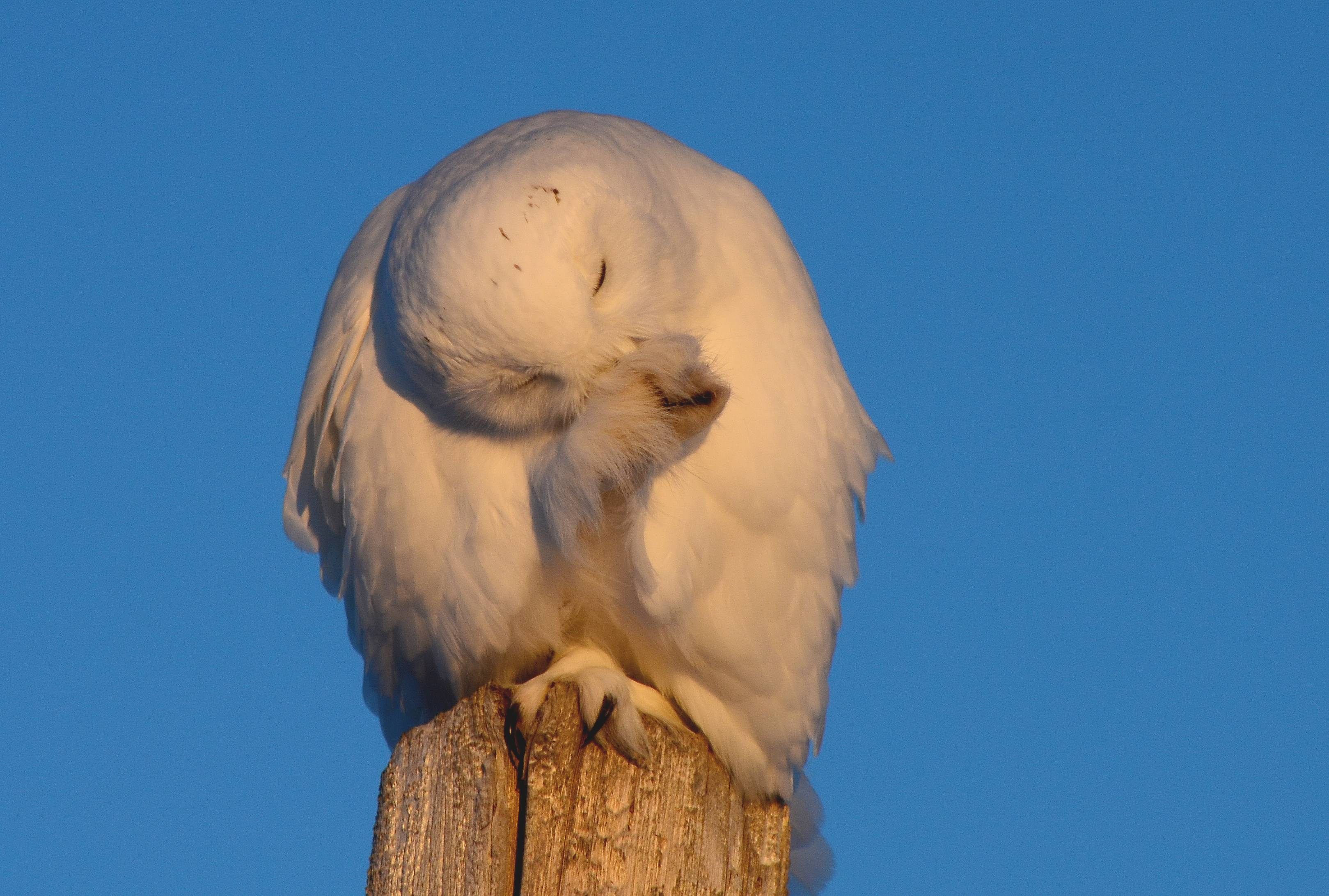 Photo Credit: Rick Bohn